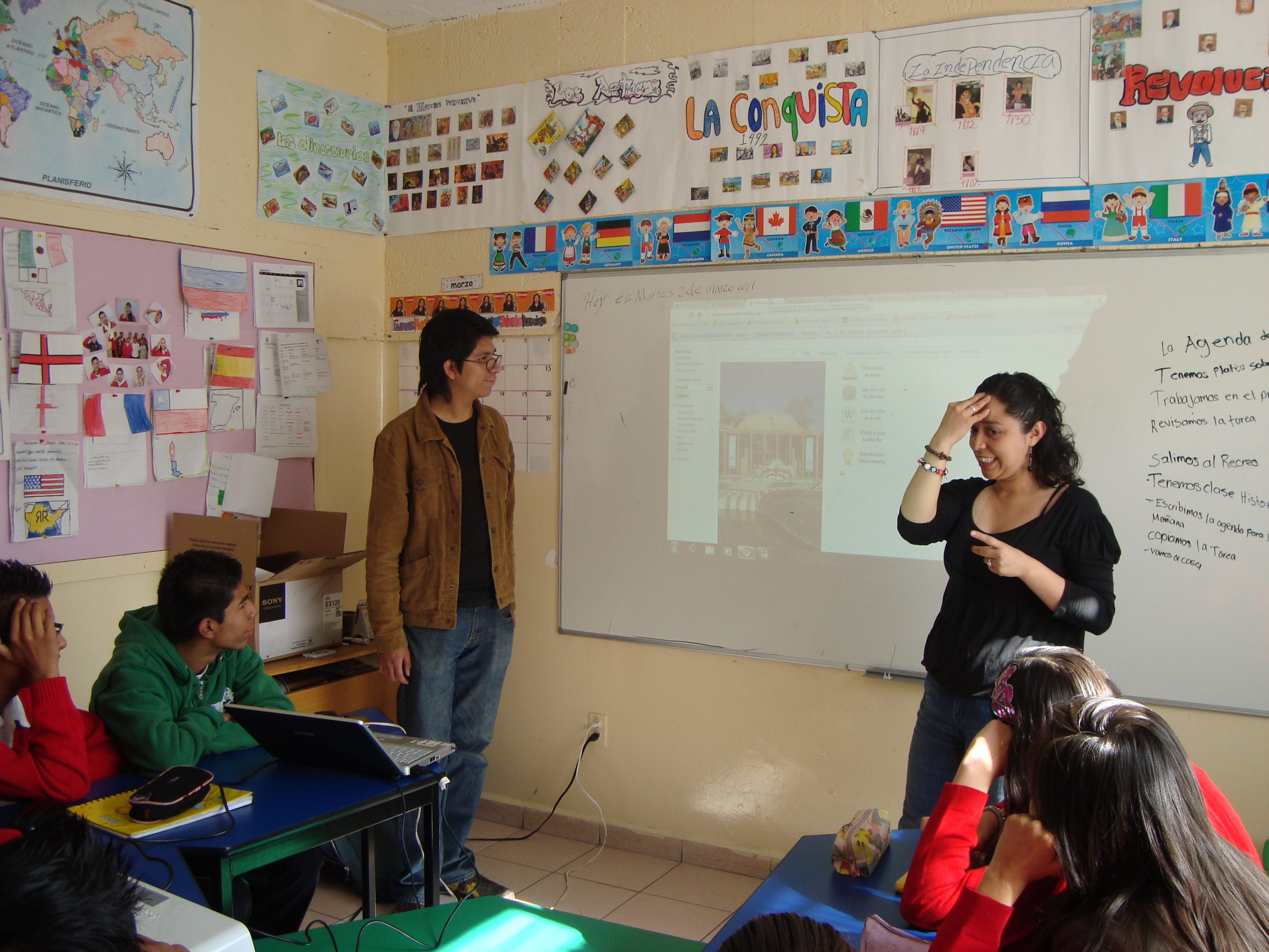 User:ProtoplasmaKid explaining Wikipedia and Wikimedia projects for deaf and hearing impaired childrens through the interpreter Lorena Chora in Mexican Sign Language. Instituto IPPLIAP, Mexico City.